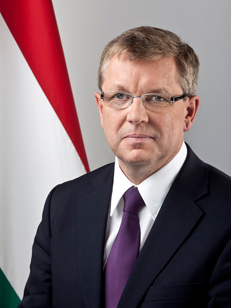 György Matolcsy, Hungarian politician, Minister of National Economy in the Second Cabinet of Viktor Orbán